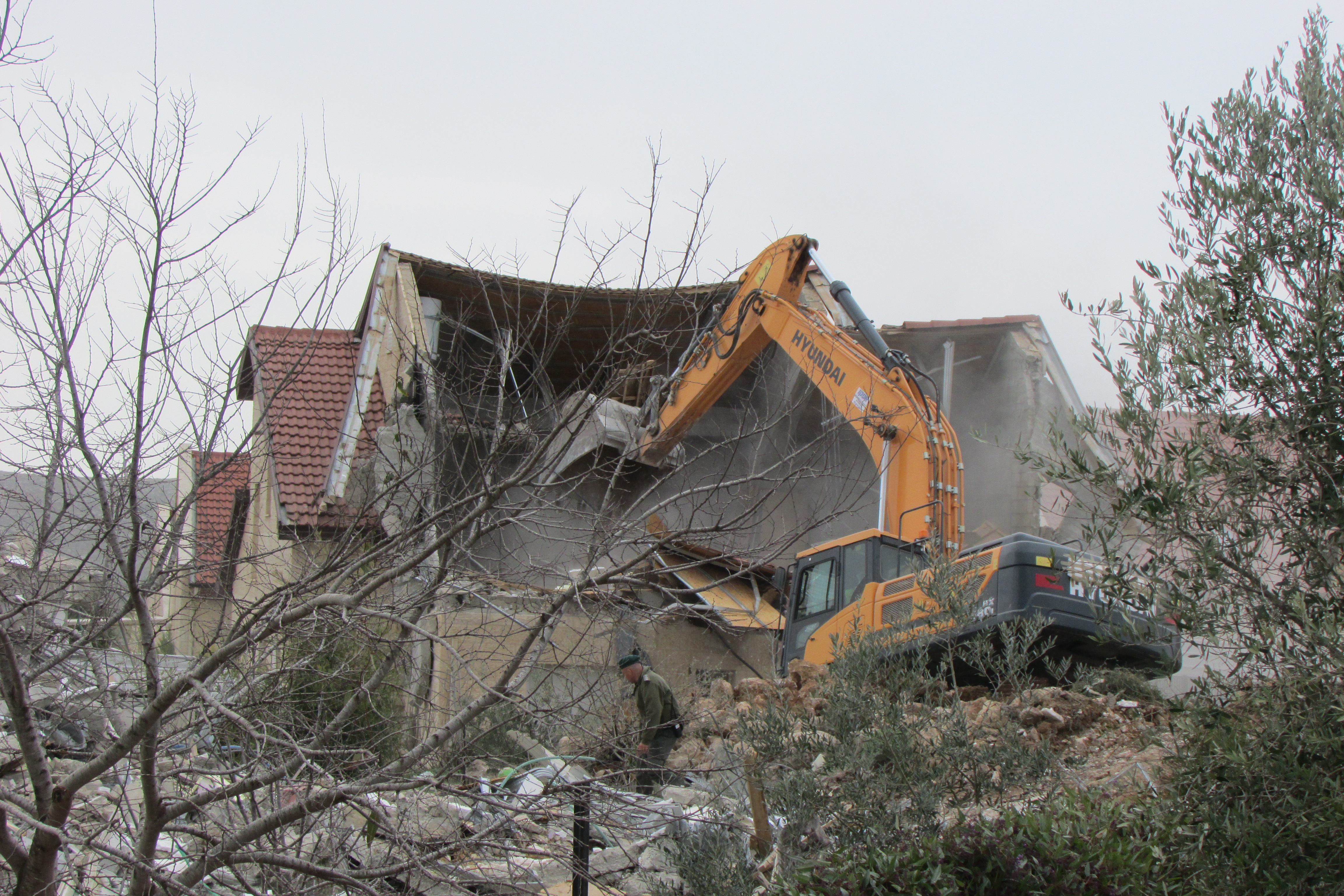 Demolishing of the nine houses in Ofra.